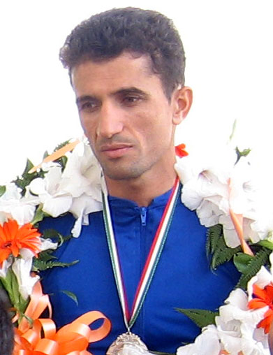 Hossein Askari in National Championship of iran in Semnan